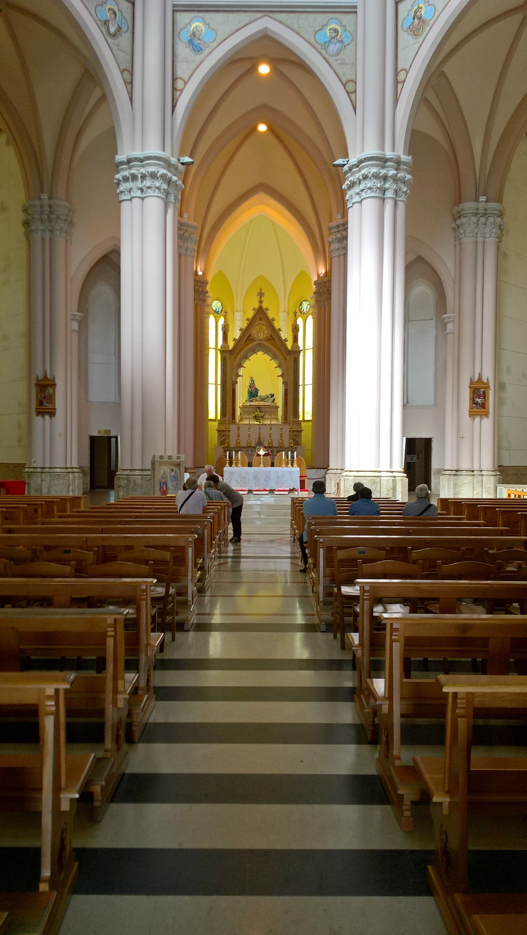 Inside view